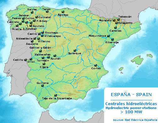 Hydroelectric power stations in Spain